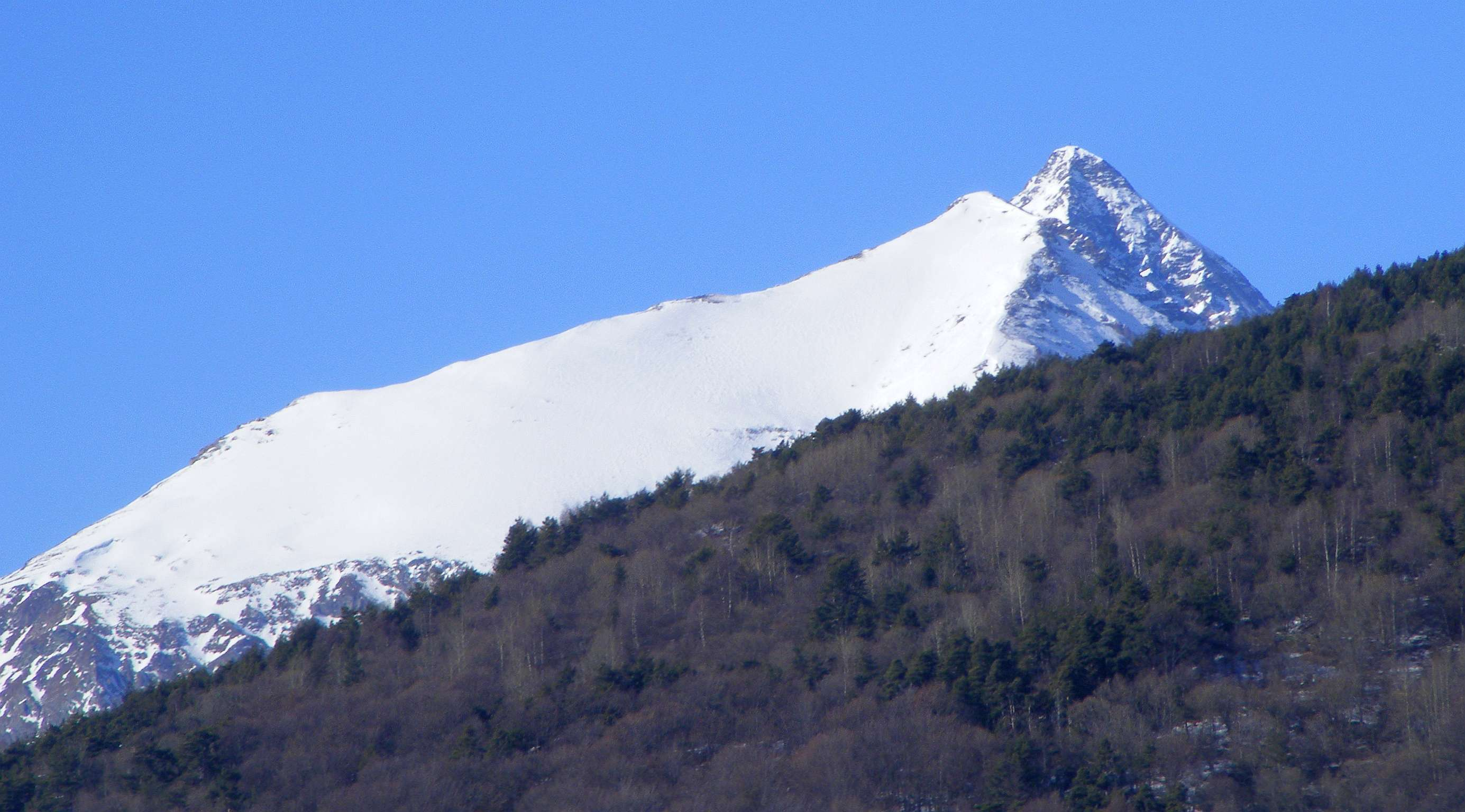 Mount Palon (TO, Italy, Graian Alps) from Rocca Grisolo (Condove); in the background, on the right, mount Rocciamelone